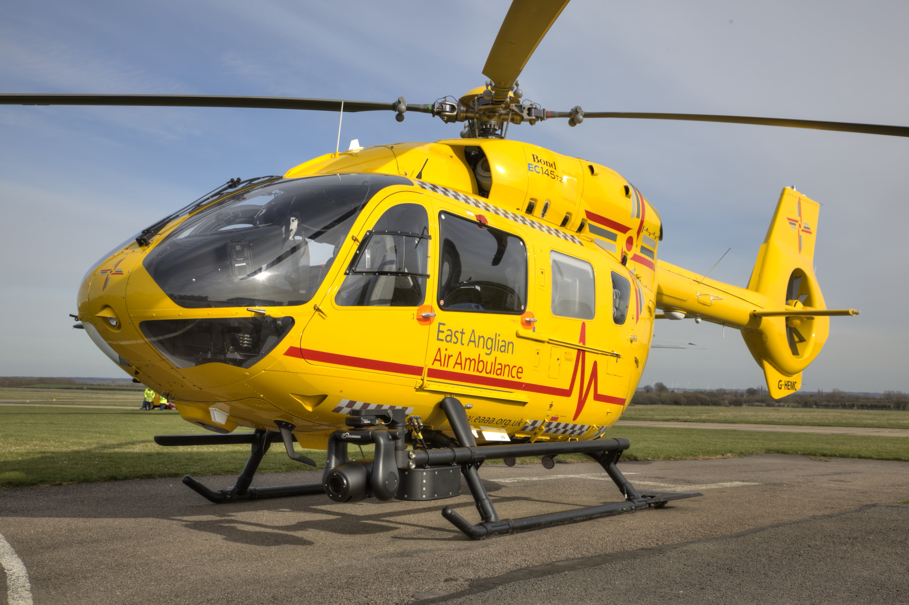 G-HEMC, an Airbus Helicopters H145 (formerly EC145T2) operated by Bond Air Services for the East Anglian Air Ambulance, photographed at Cambridge Airport. Completed its first HEMS mission on 2nd April 2015.